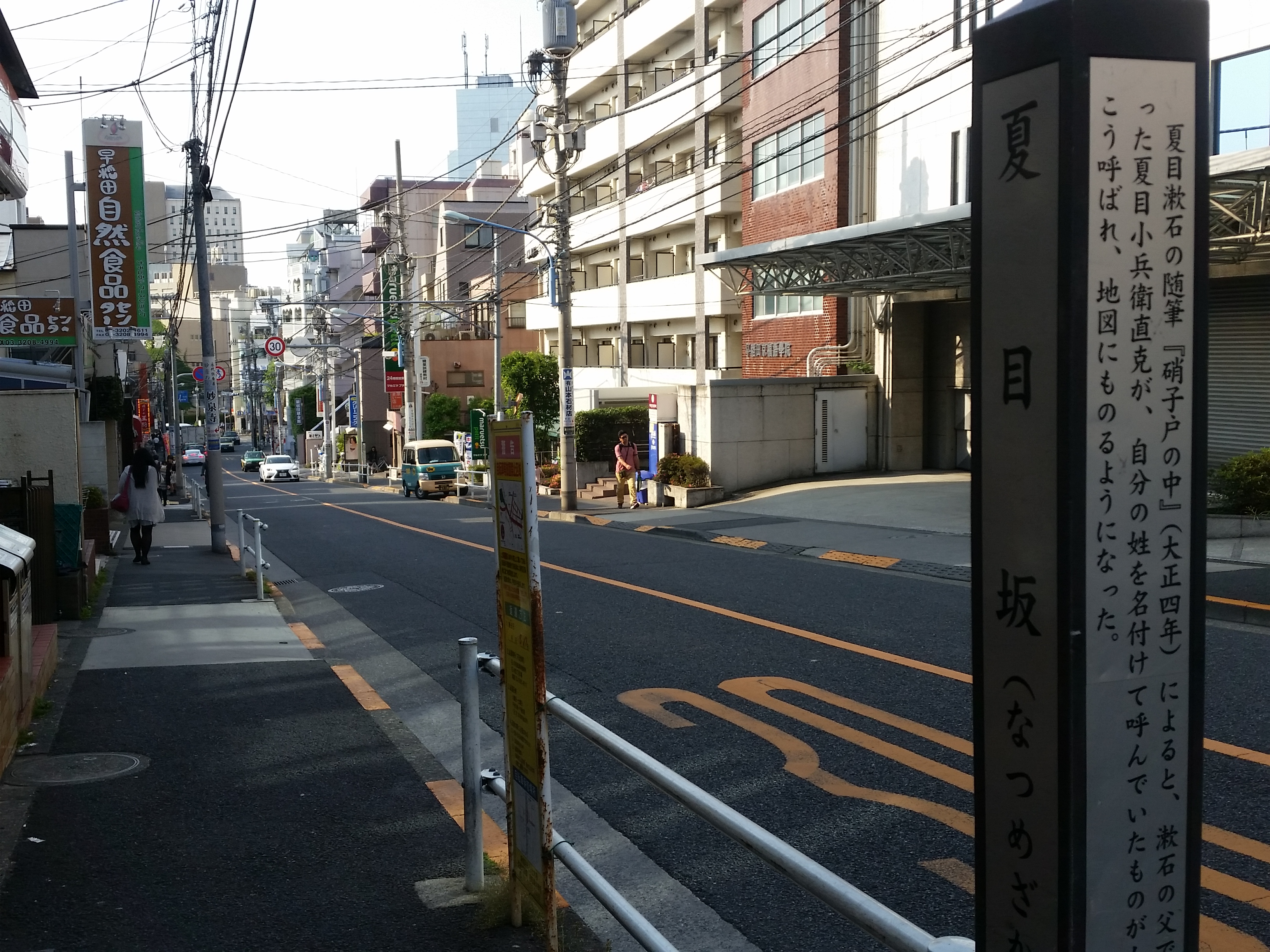 Natsume Slope in Shinjuku, Tokyo Japan